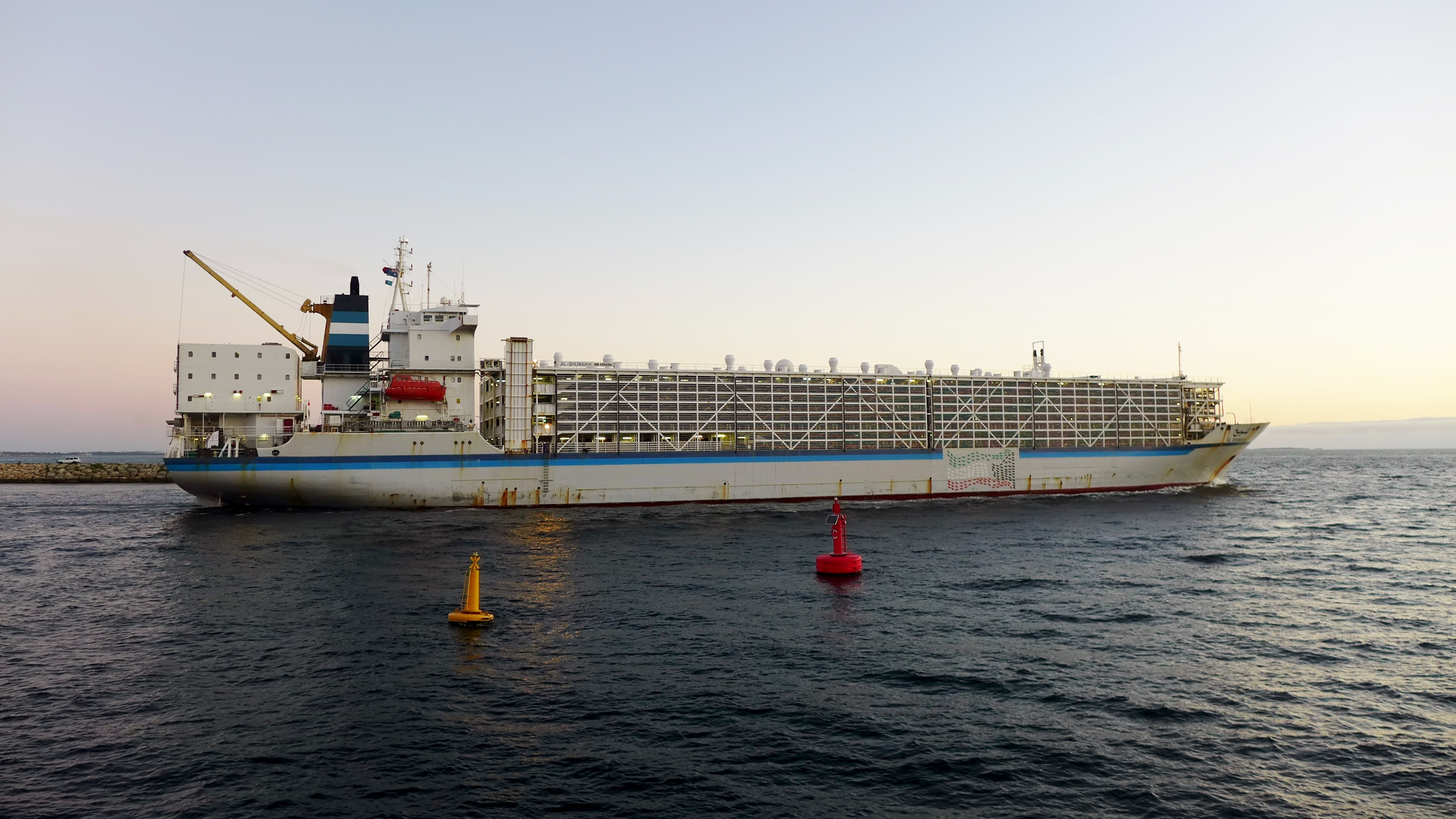 Livestock carrier Al Shuwaikh departing from Fremantle Harbour, Western Australia.